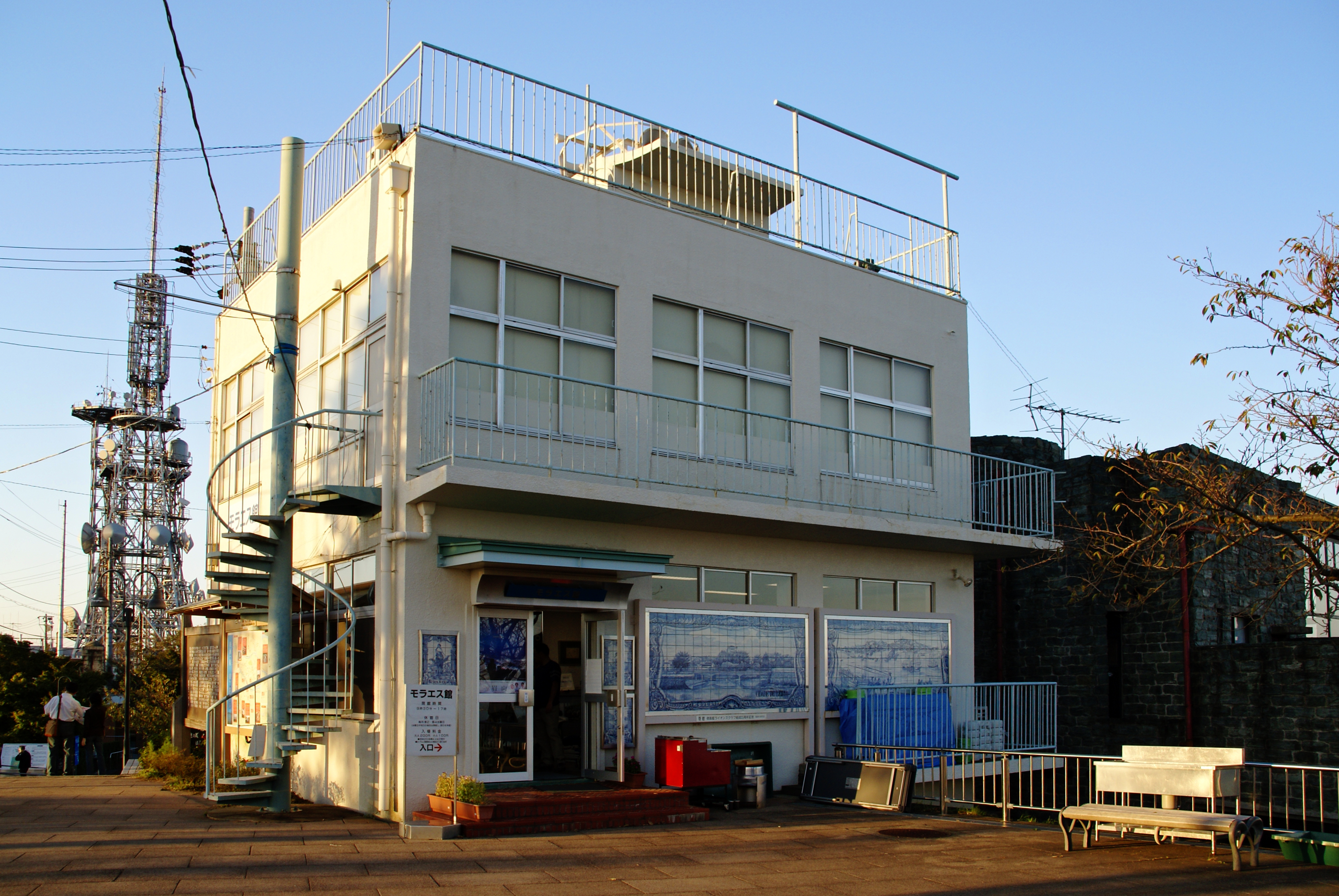 Moraes Memorial Museum in Tokushima, Tokushima prefecture, Japan